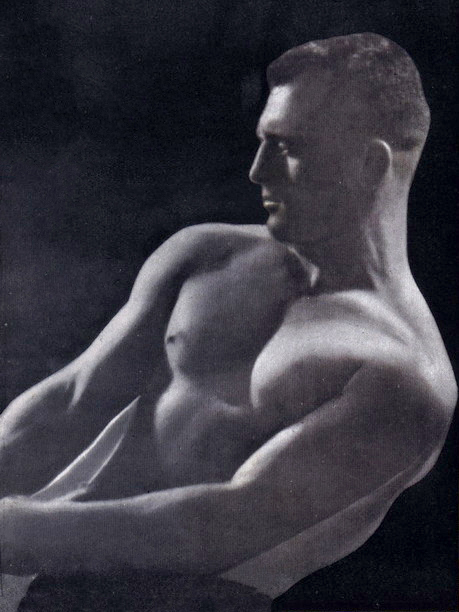 Photo of Pietro Lombardi